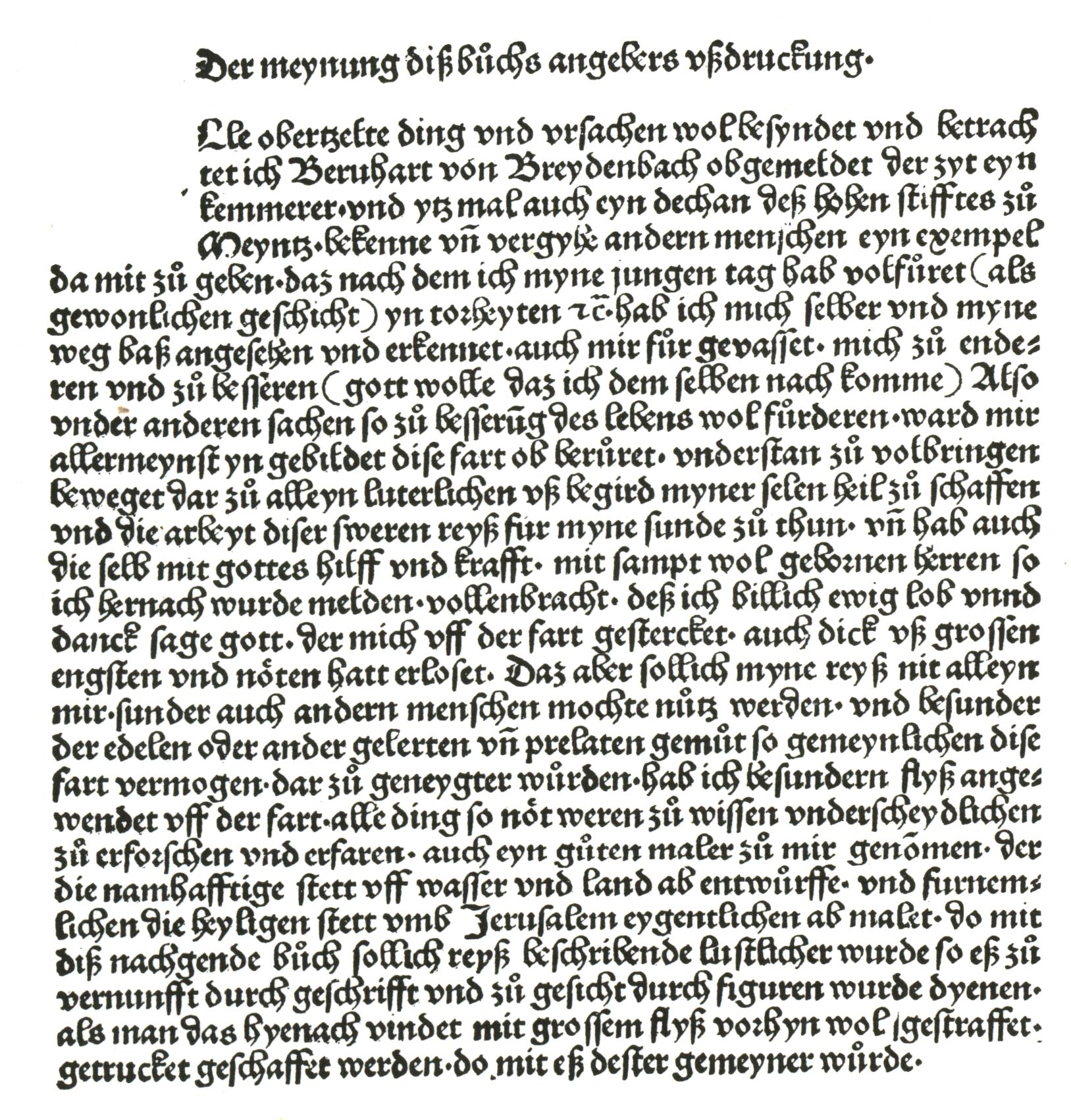 Bernard of Breidenbach, Peregrinatio in terram sanctam (the story of his journey to the Holy Land). Incunable printed at Mainz in 1486, fol. 10r. Script: Bastarda.